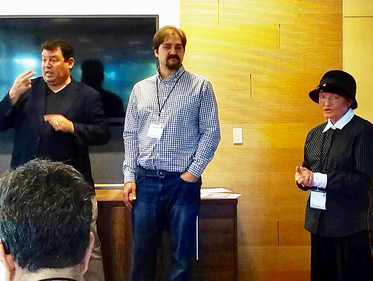 Presenting the ASL Wikipedia at the North American Wiki Conference 2016